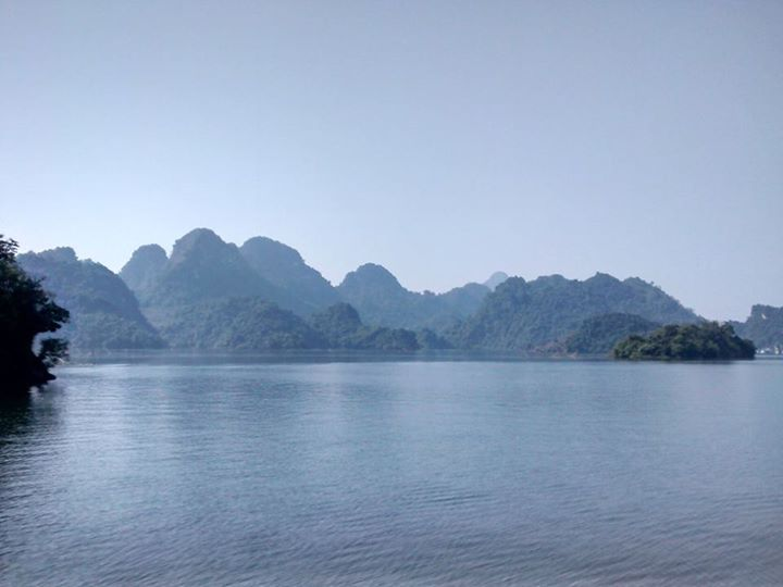 Hoa Binh Reservoir (Black River Reservoir), northern VietnamTiếng Việt: Hồ thủy điện Hòa Bình